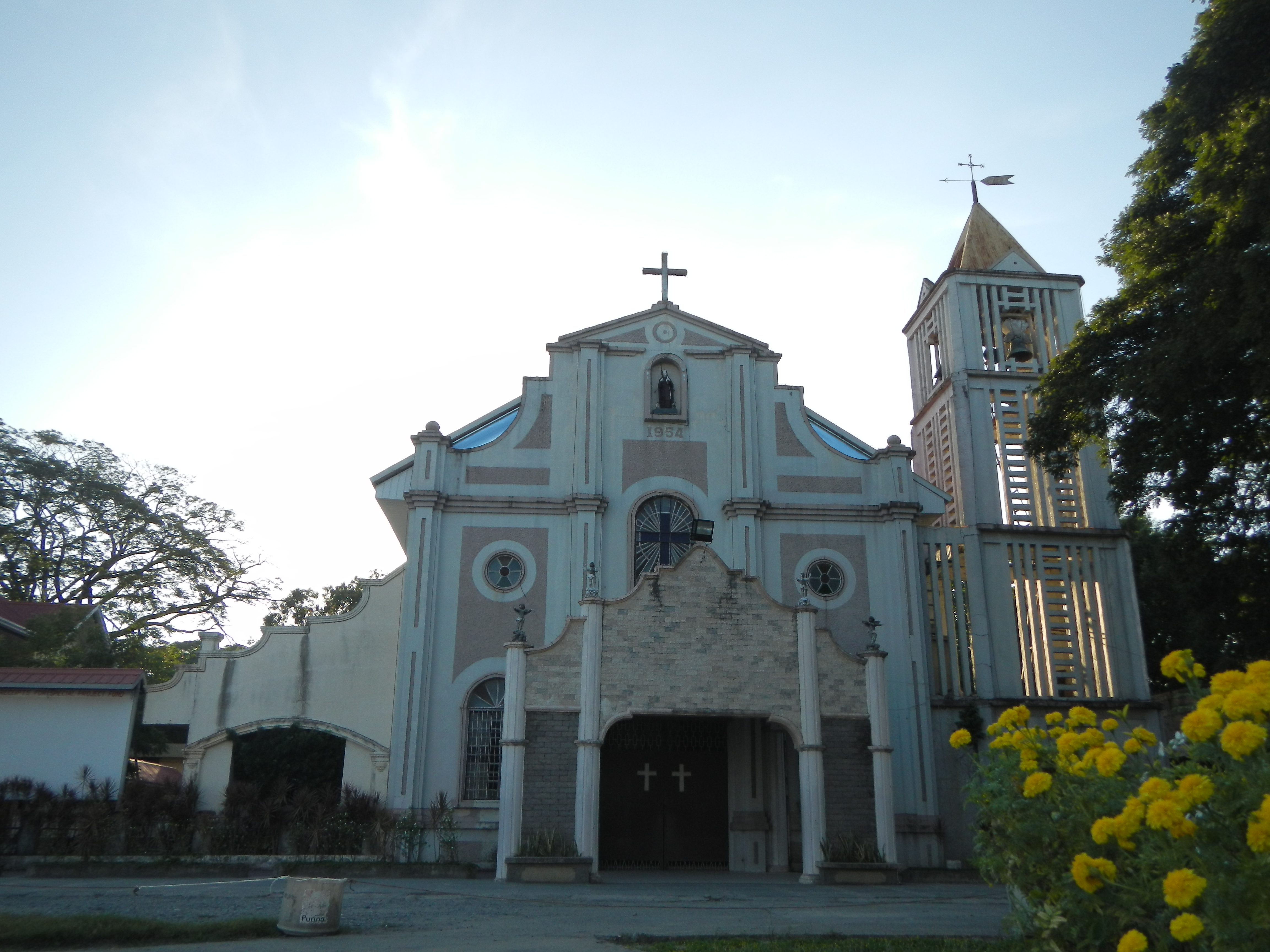 The 1763 (Heritage) Saint Anthony the Abbot Parish Church (Villasis, 2427 Pangasinan)[1] is part of the Roman Catholic Diocese of Urdaneta (from the Archdiocese of Lingayen-Dagupan.[2] [3]; Feast Day: January 17; Parish Priest: Father Arturo F. Aquino & Parochial Vicar: Father Dionisio B. Luzano).